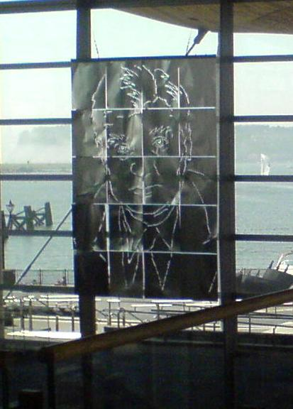 Cropped portrait of Aneurin Bevan in the Senedd, Cardiff Bay, Cardiff, Wales